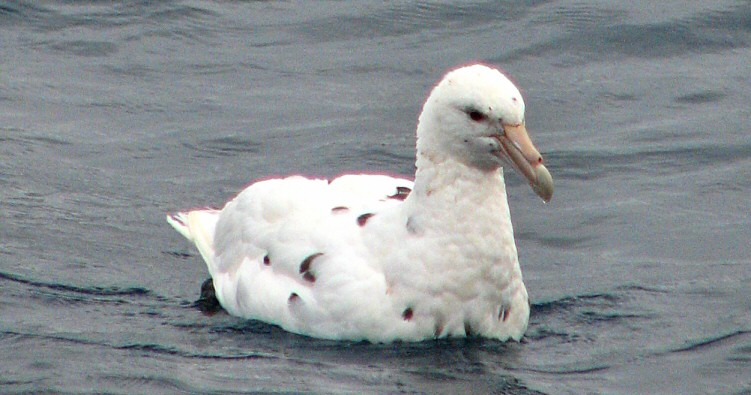 Macronectes giganteus, white morph, Amundsen Sea, 27 February 2010